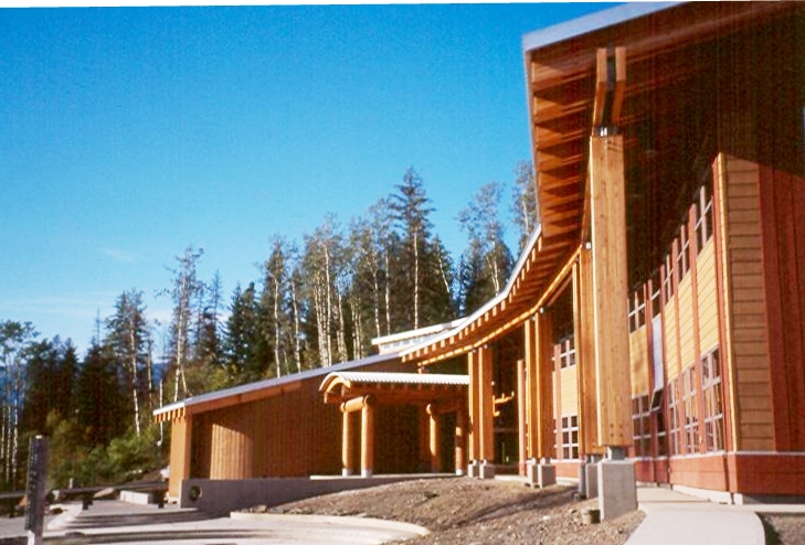 The front of the Nigsa'a Lisims Government Building at the time of dedication, early September 2000. The entry forecourt was not complete and the totem not installed.